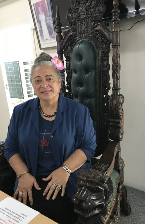 Niki Rattle, Speaker of the Cook Islands Parliament, seated in the Speaker's Chair in November 2017.